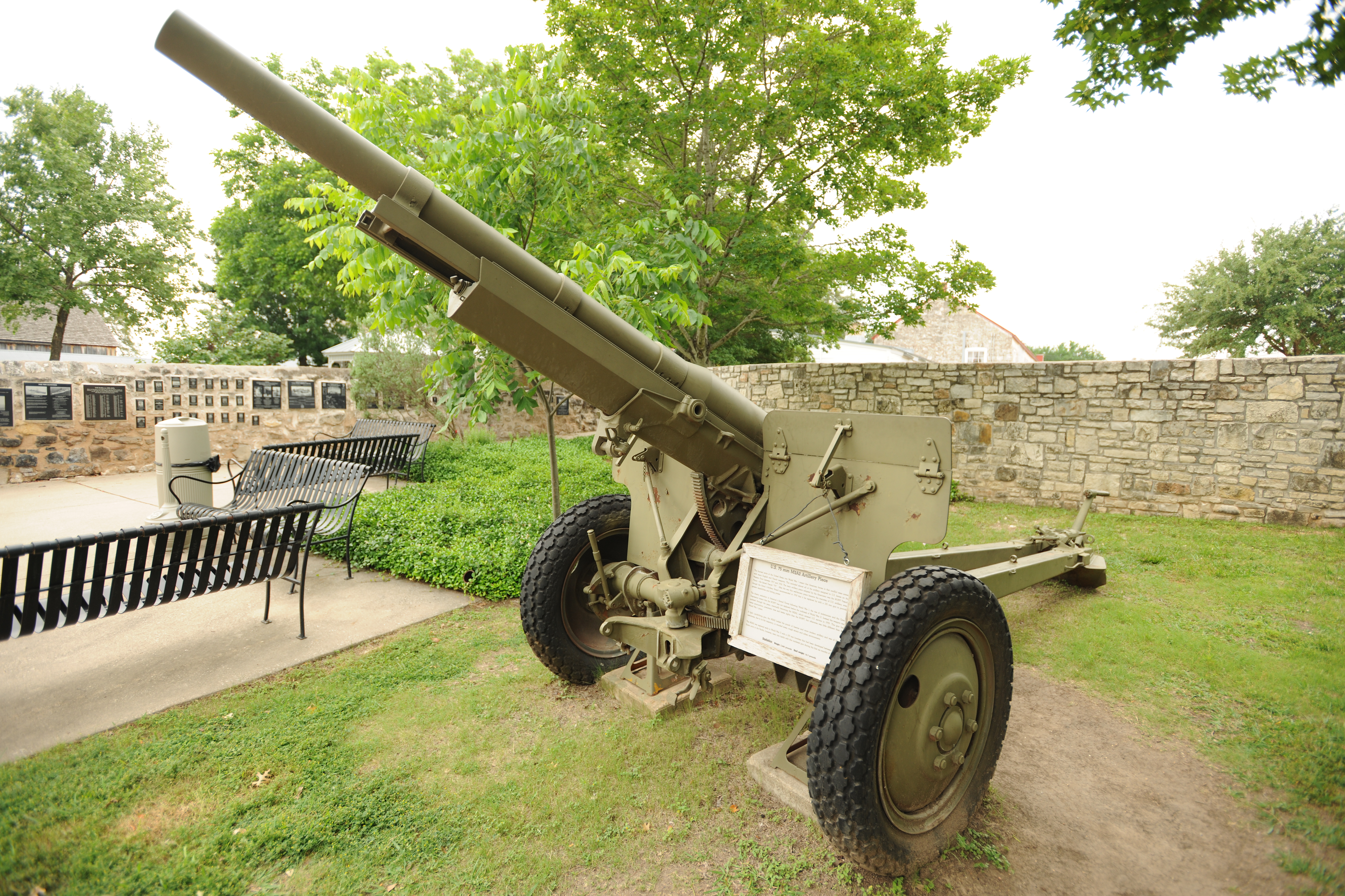 US 75 mm M2A2 Artillery Piece